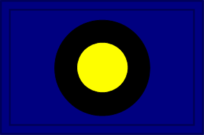 The shoulder patches using in WWII would be covered by a Crown Copyright held by the Canadian Department of National Defence. The copyright expired 50 years after the patch design was created (no later than 1944).